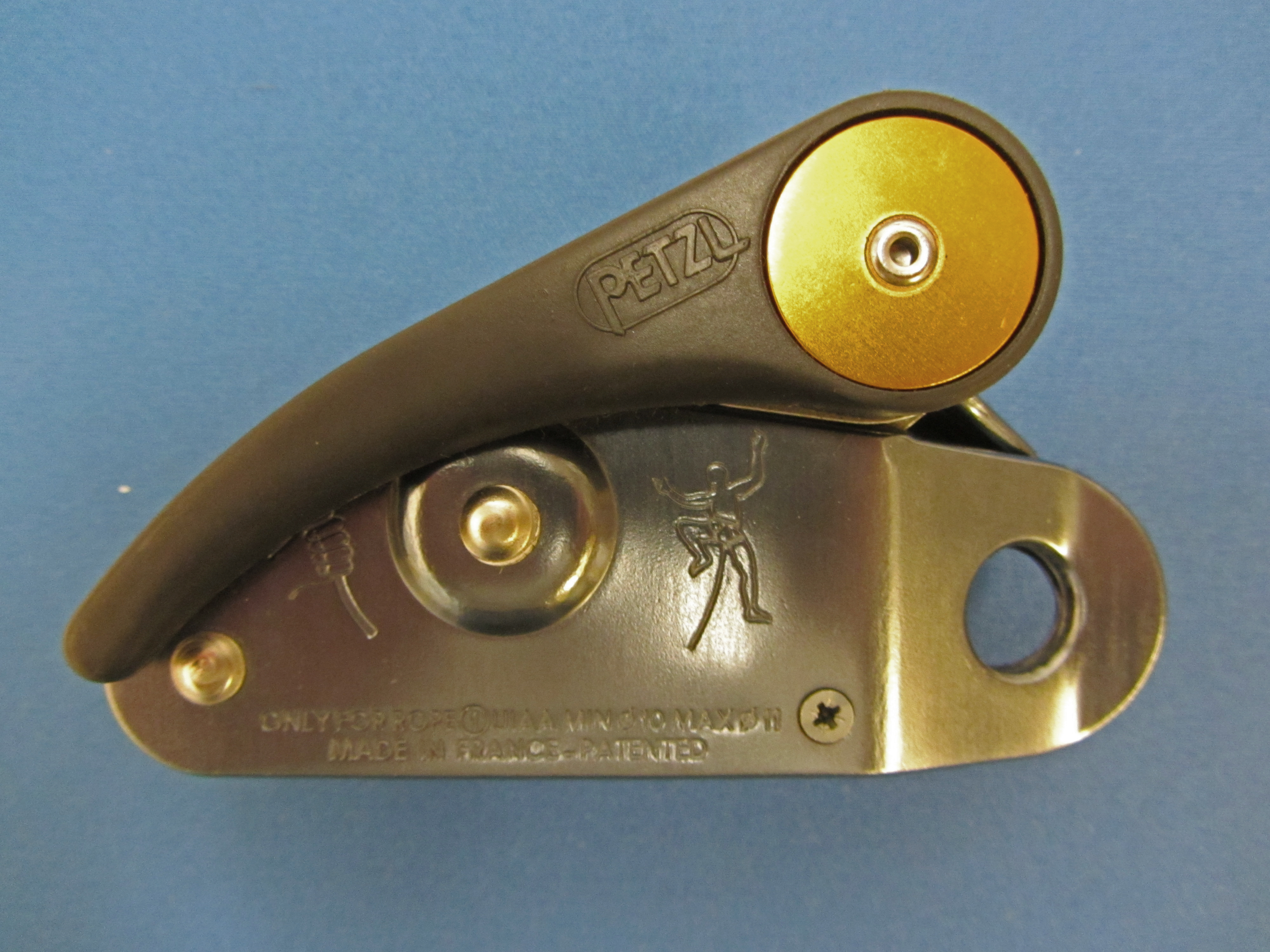 Belay Device "Gri-Gri"